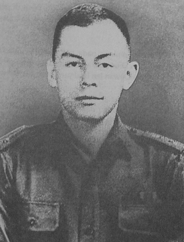 First. Lt Pierre Tendean, Indonesian Army officer killed in 1965